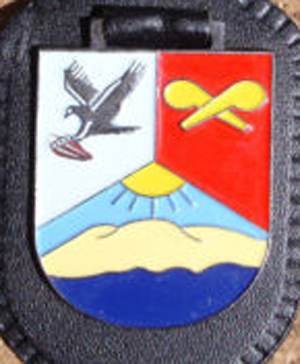 German NBC Defense Battalion in Kuwait